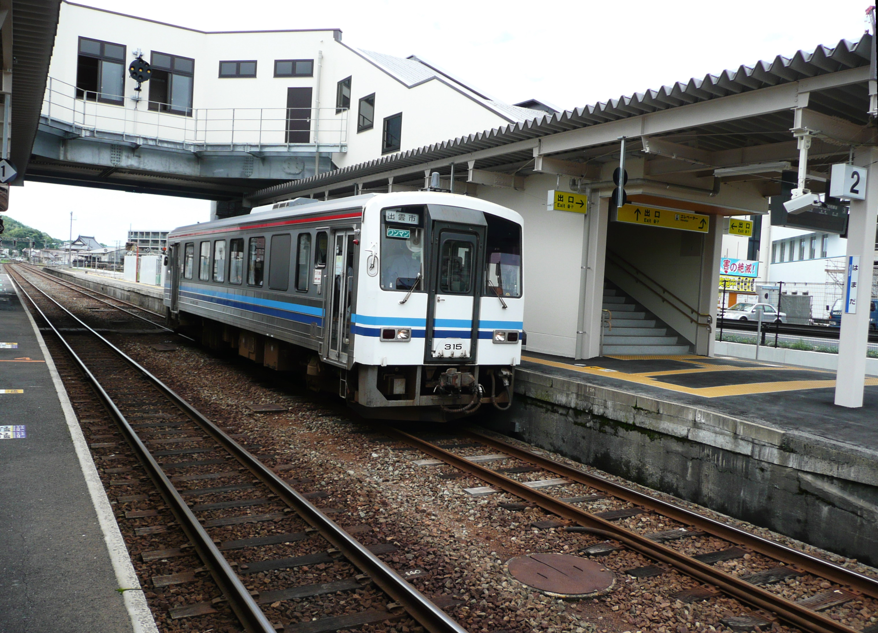 Hamada Station platform 2 with train bound for Izumoshi